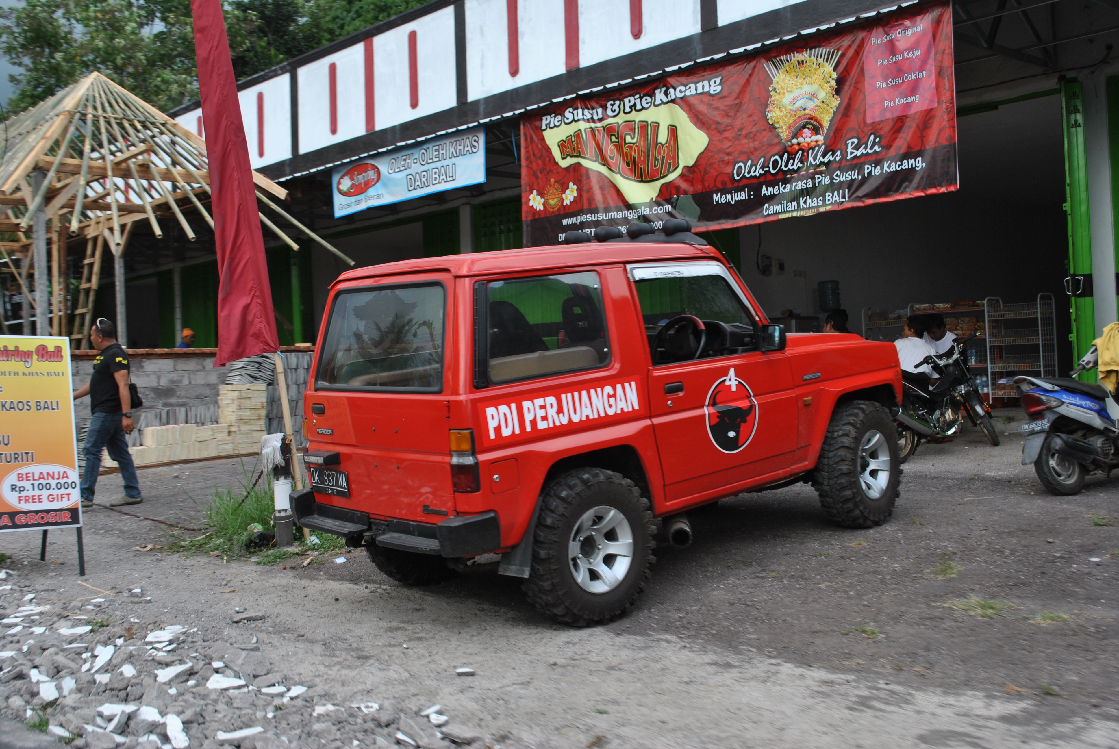 It is easy to pinpoint that owner of depicted Daihatsu Feroza is the party's local official.